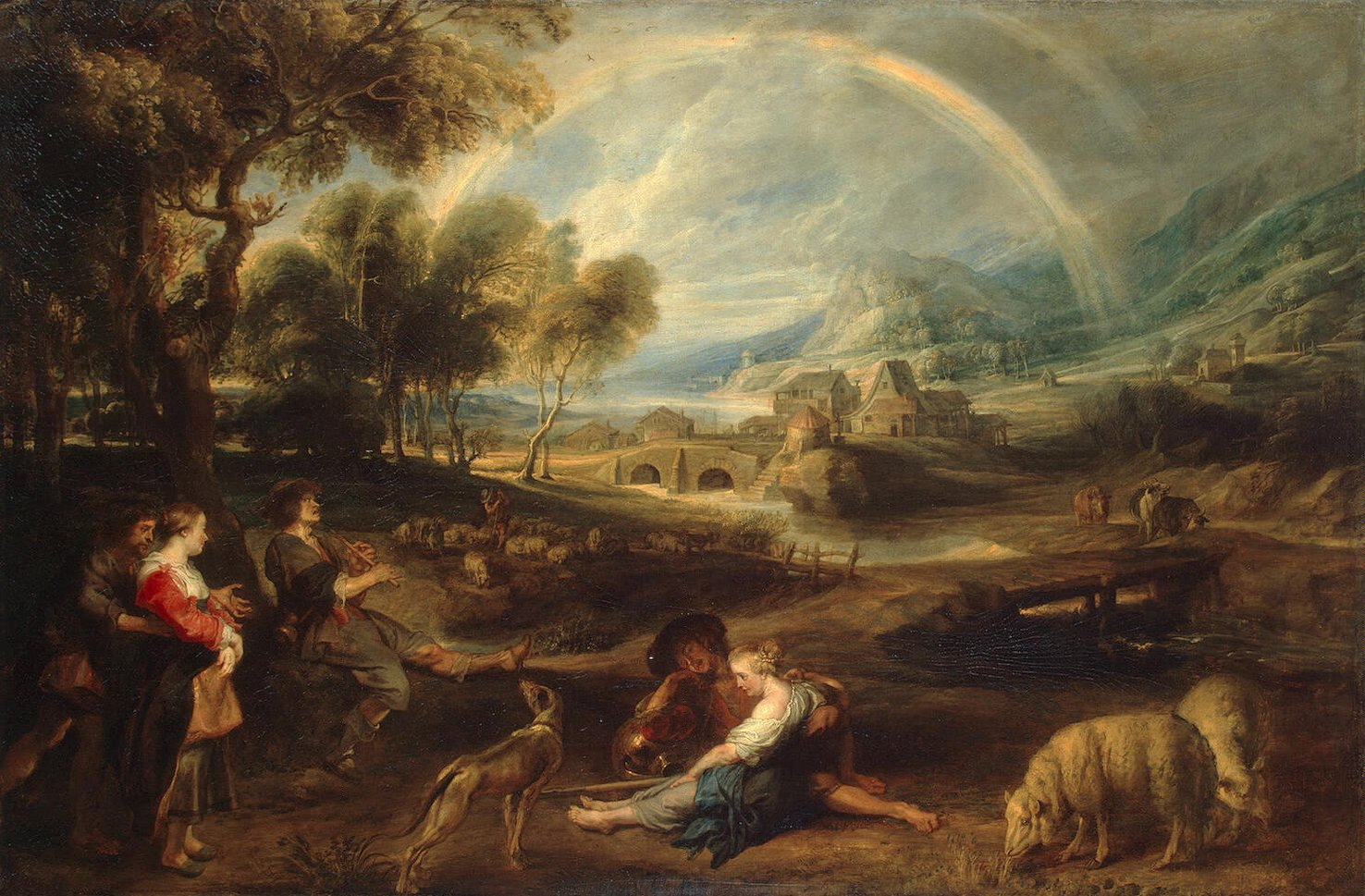 Landscape with Rainbow[1]